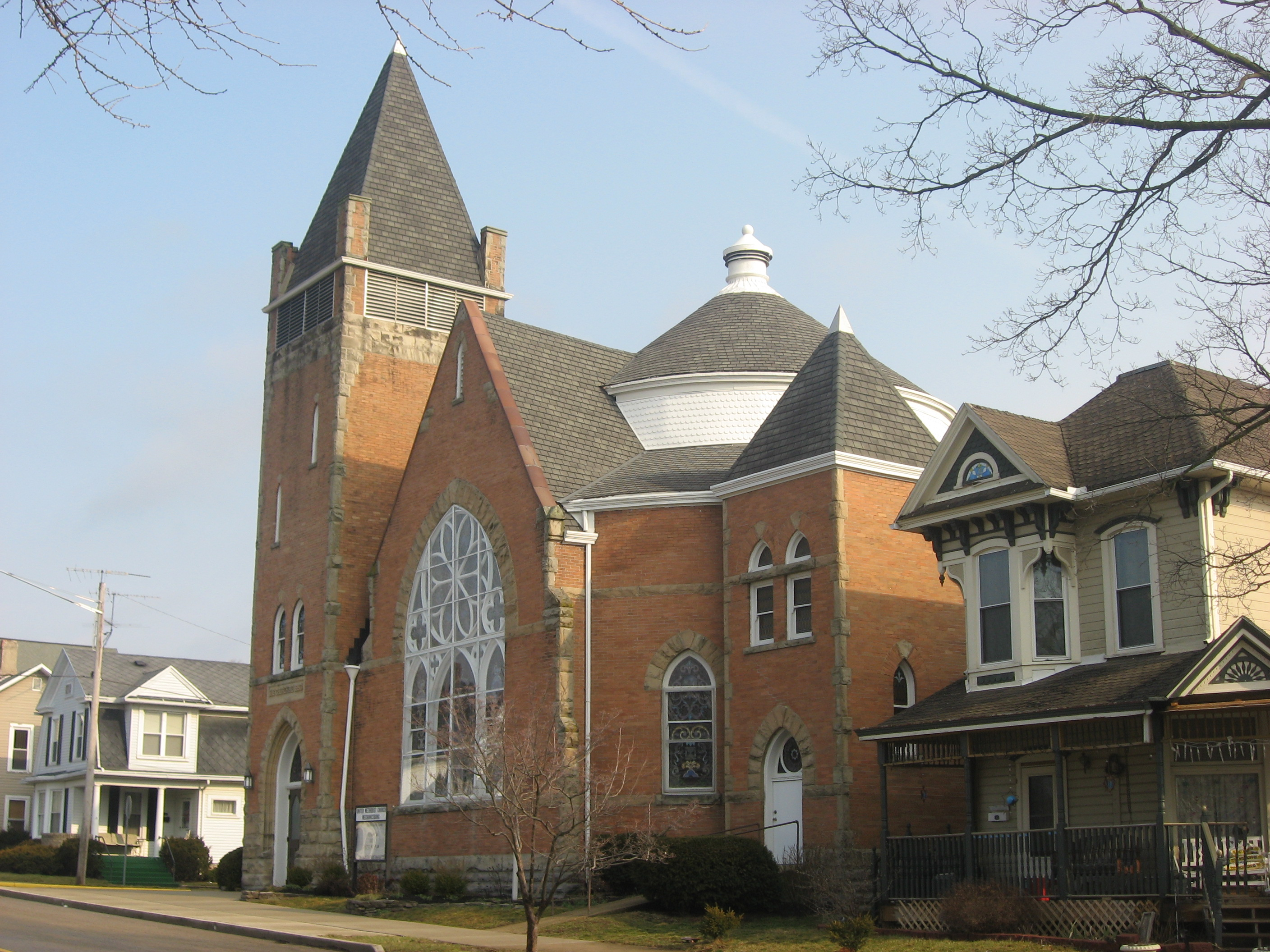 Front and southern side of the Mechanicsburg United Methodist Church, located on the eastern corner of the intersection of Main (State Route 29) and Race Streets in Mechanicsburg, Ohio, United States. Built in 1893, it is listed on the National Register of Historic Places.